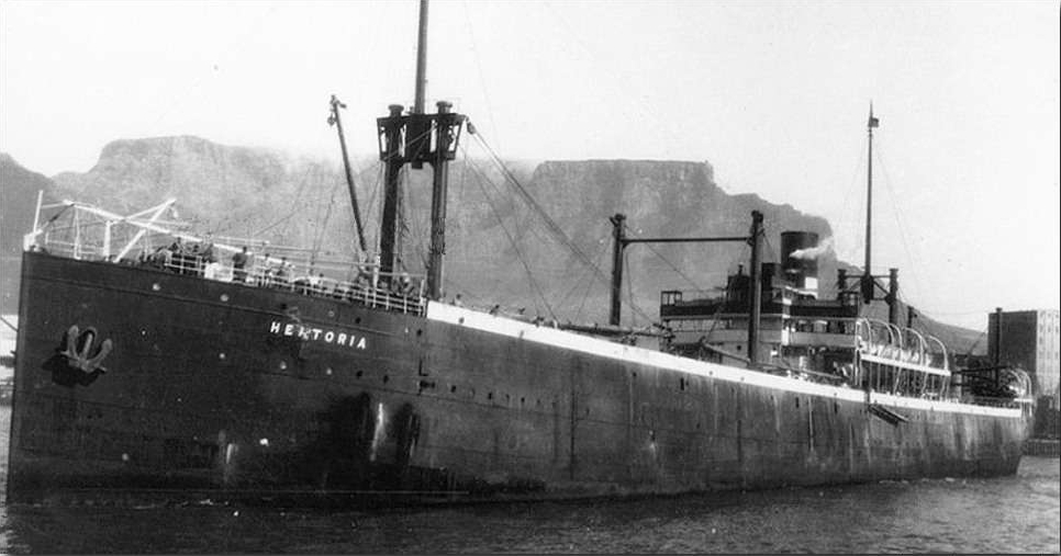 Norwegian whaling ship Hektoria, formerly the liner Medic.